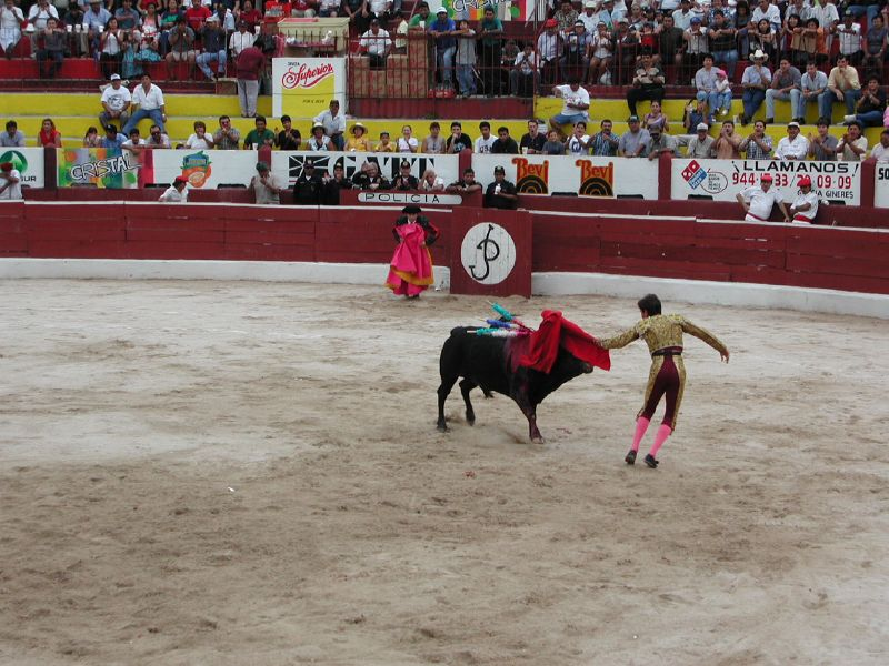 Bullfighting, matador faces off against a bull in Mexico, bullfight, bull fighttoreador